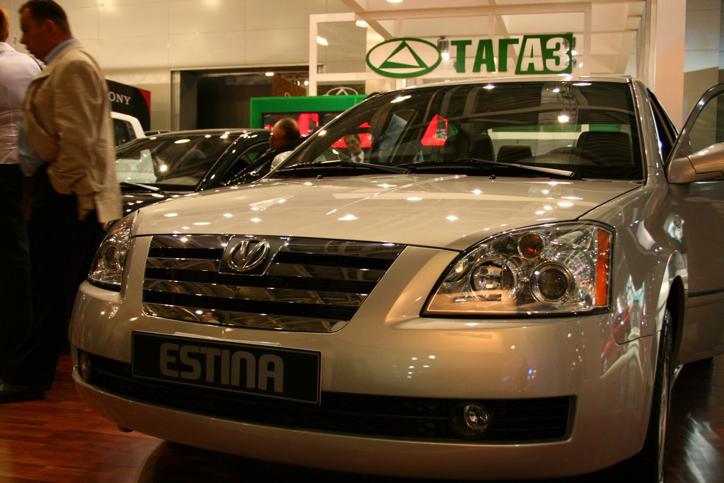 TagAZ Vortex Estina is a Chery A5 sedan with a new name. (